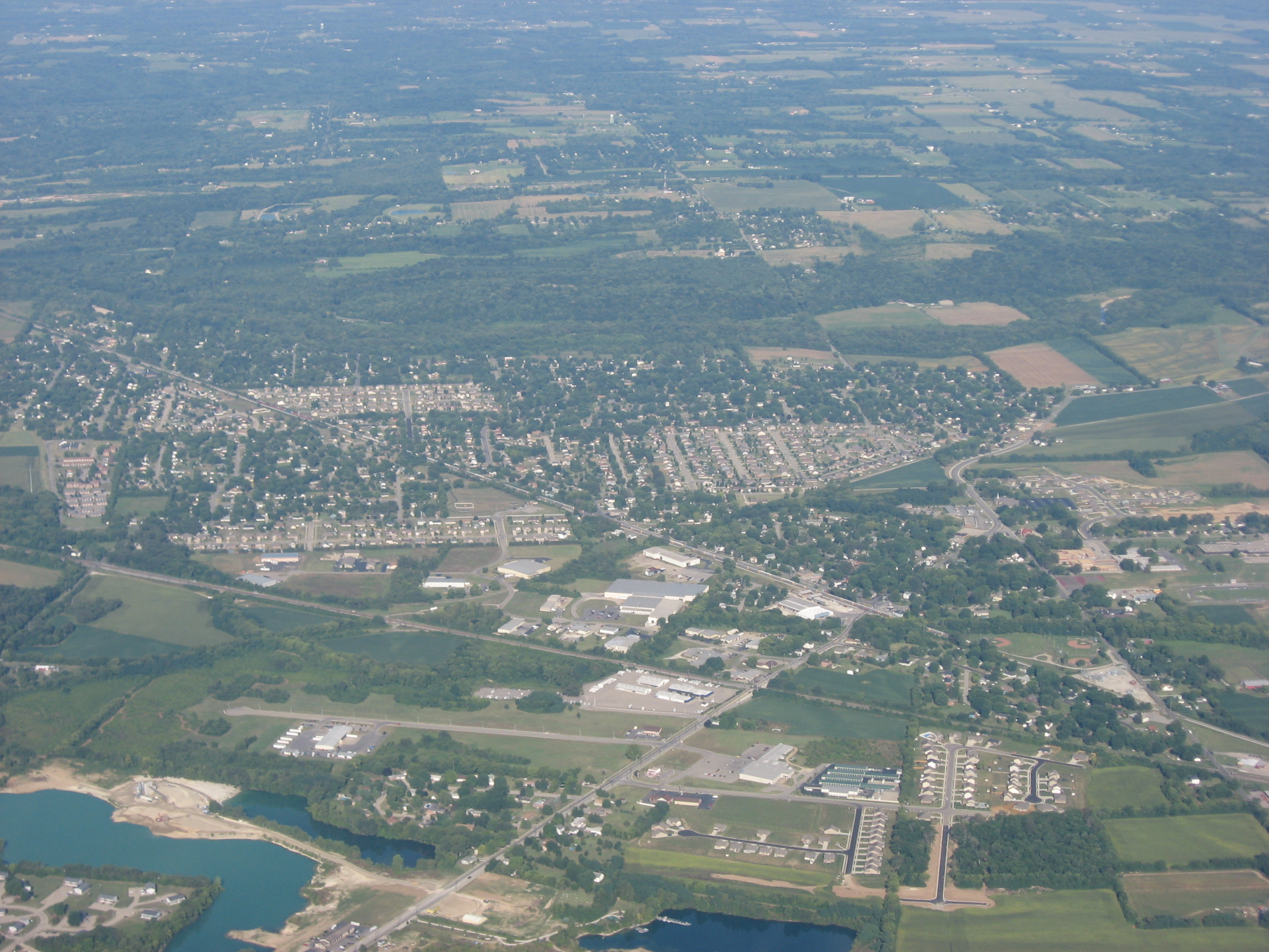 Aerial view of Carlisle, a city split between Montgomery and Warren counties in the southeastern part of the U.S. state of Ohio. Picture taken from a Diamond Eclipse light airplane at an altitude of 4,540 feet MSL and a bearing of approximately 270º.